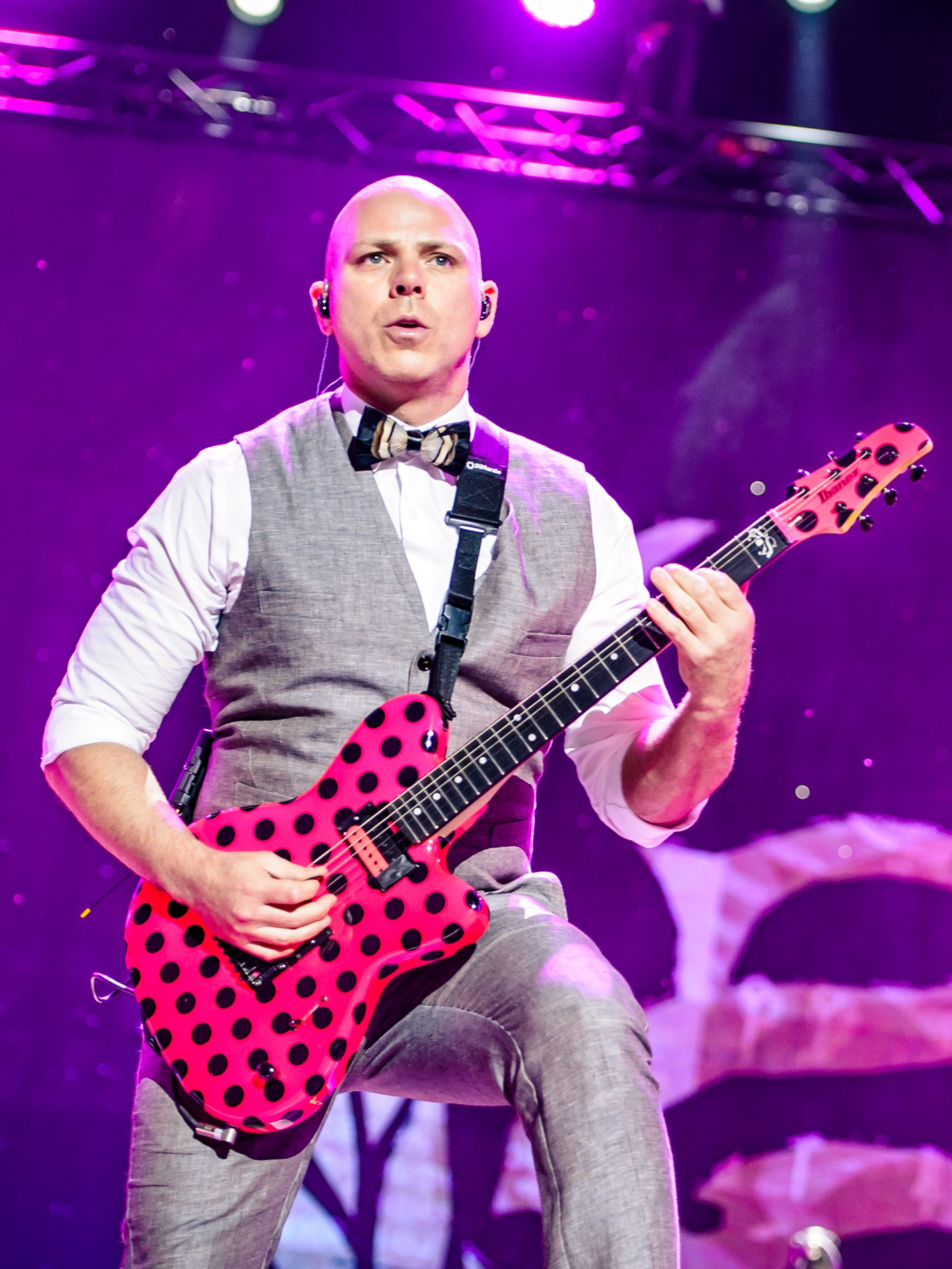 A cropped version of File:20180602 Nürnberg Rock im Park Stone Sour 0319.jpg